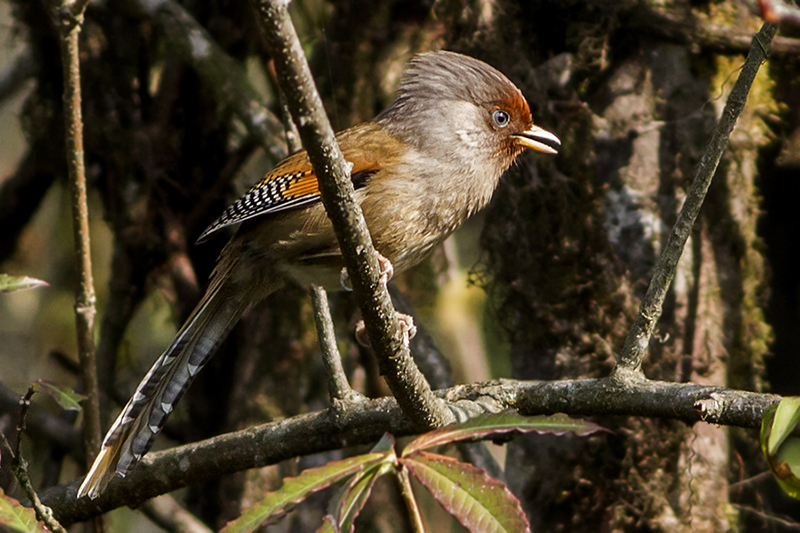 This is an image of Rusty-fronted barwing, Photographed at Fambong Lho Wildlife Sanctuary of East District of Sikkim, India on 29th March 2014.